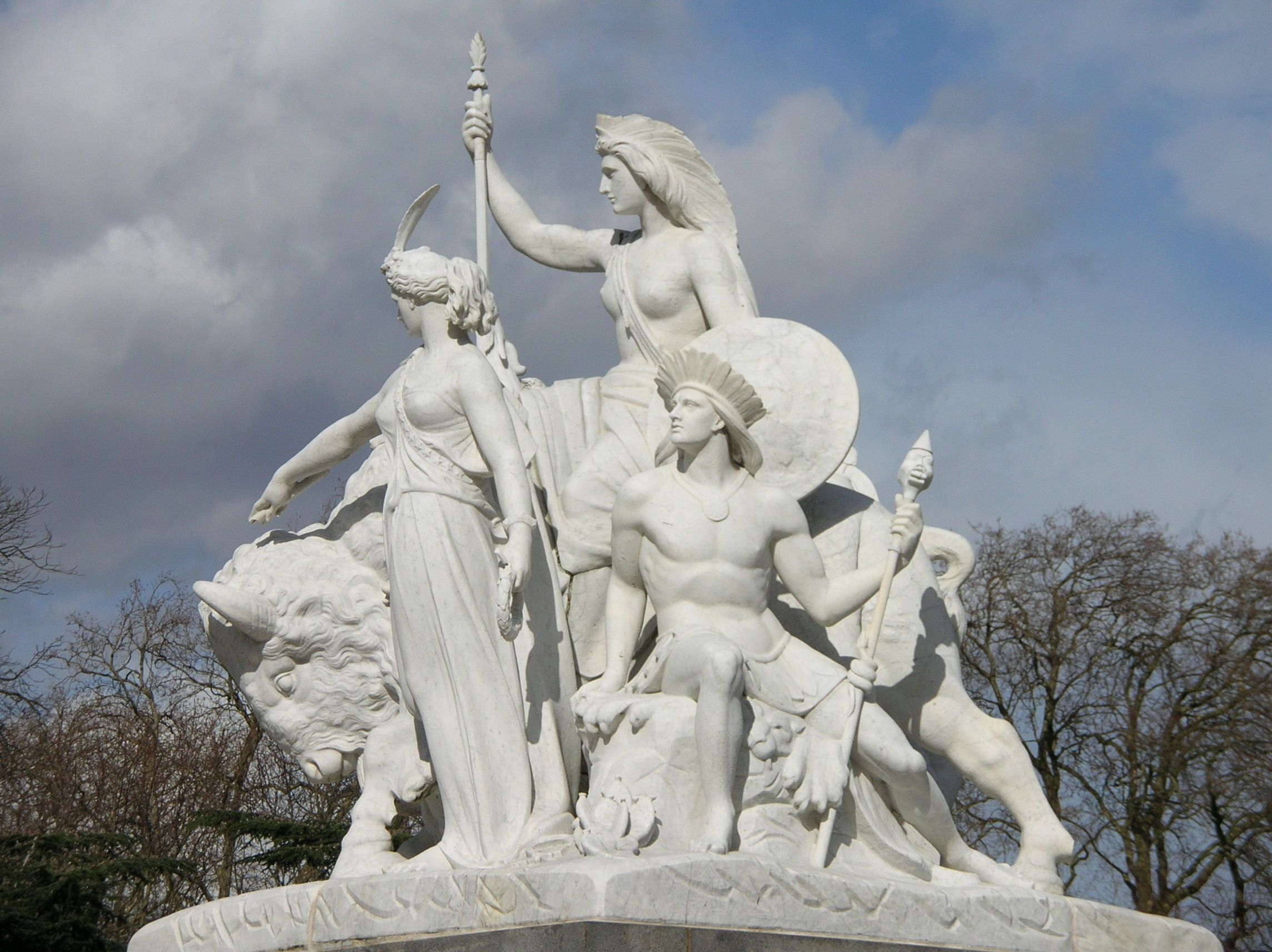 Photograph of the Americas group of the Albert Memorial. Sculptor: John Bell